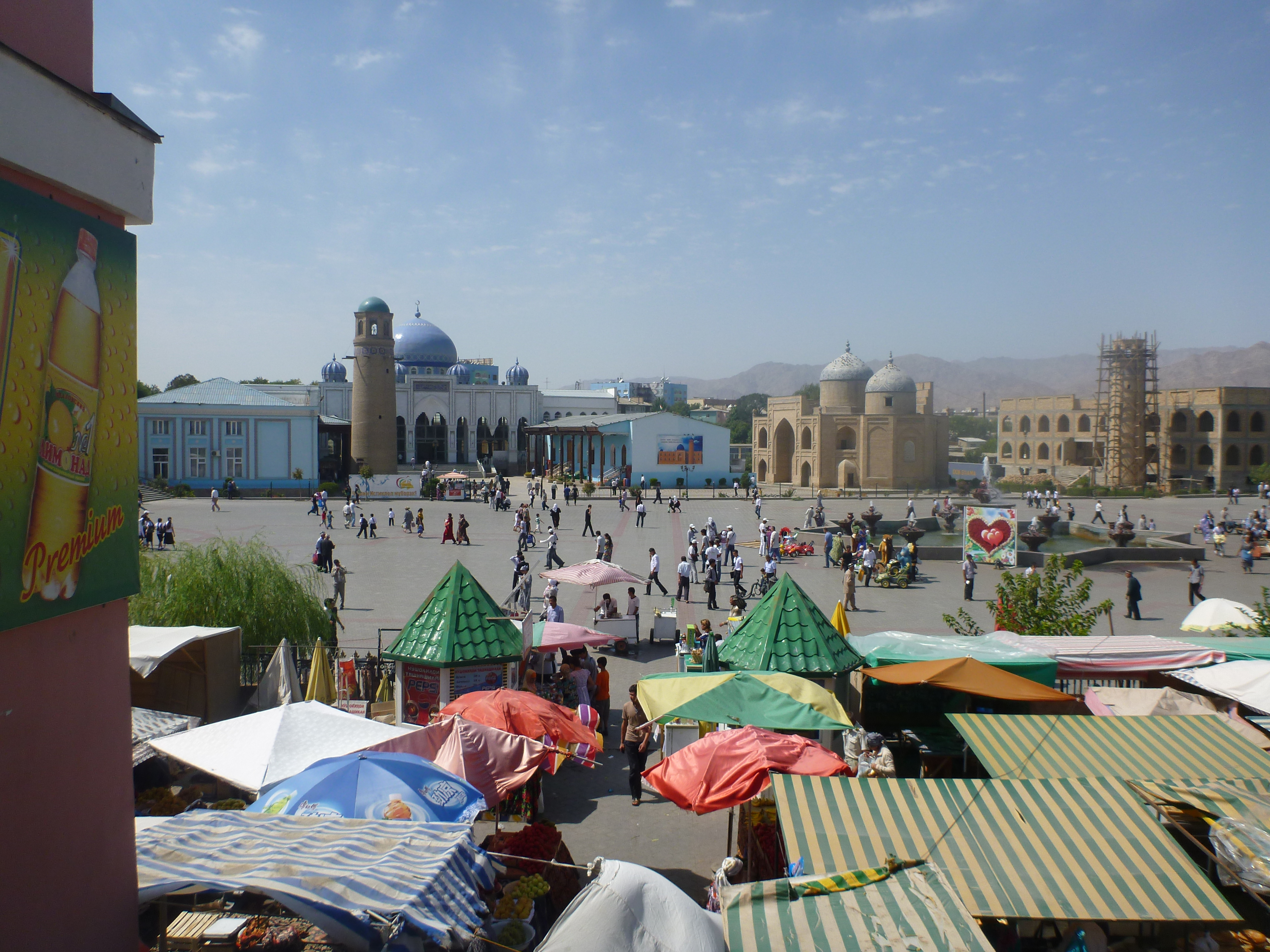 Khujand, marketsquare